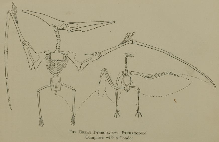 Comparison of a Pteranodon skeleton with that of a modern condor.